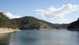 Sünnet Lake, Göynük.